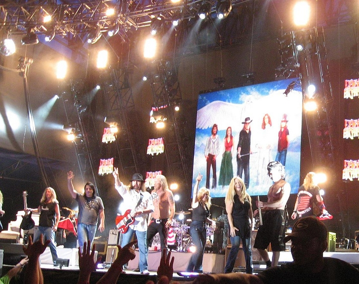 Lynyrd Skynyrd in concert - New Brockton, Alabama, June 7, 2008